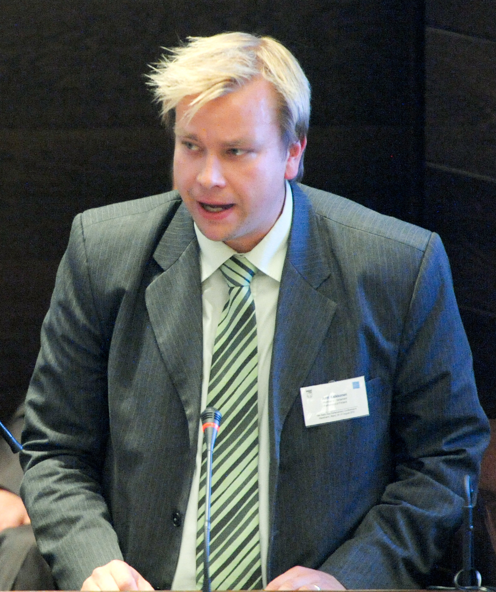 Antti Kaikkonen Finland BSPC 19 Mariehamn Åland